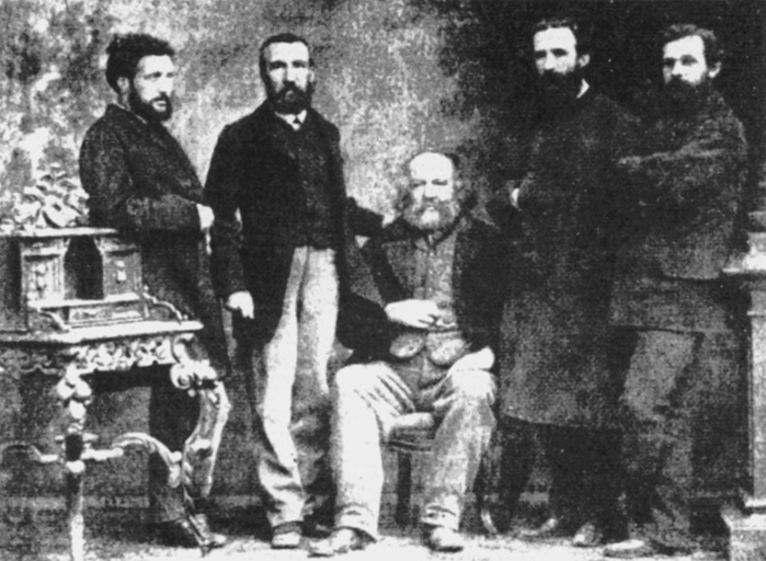 Group photo at the 1869 IWA congress in Basel. From left to right: Monchal, Charles Perron, Mikhail Bakunin, Giuseppe Fanelli and Valerian Mroczkovsky.